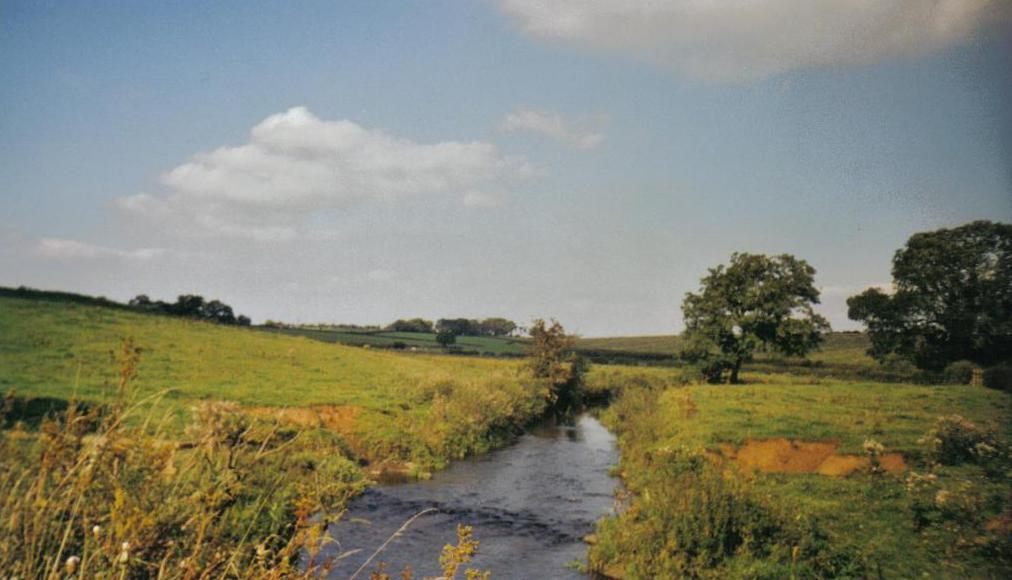 A view of the Glazert at Gallowayford in Ayrshire, near Kennox House. The Gallows were situated hereabouts and the cists were in the nearby mound.